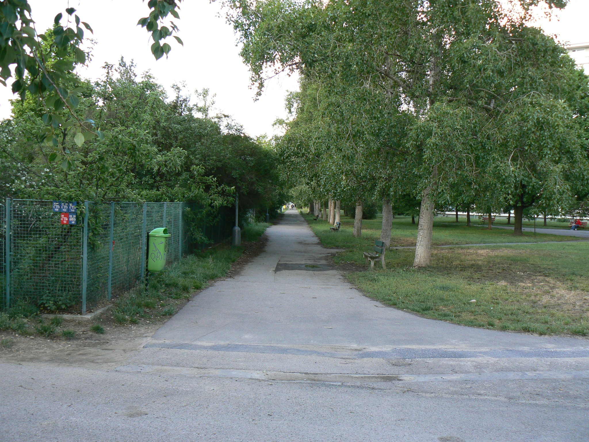 Dlouhá cesta - a part of ancient path leading from Pankrác to Dobeška